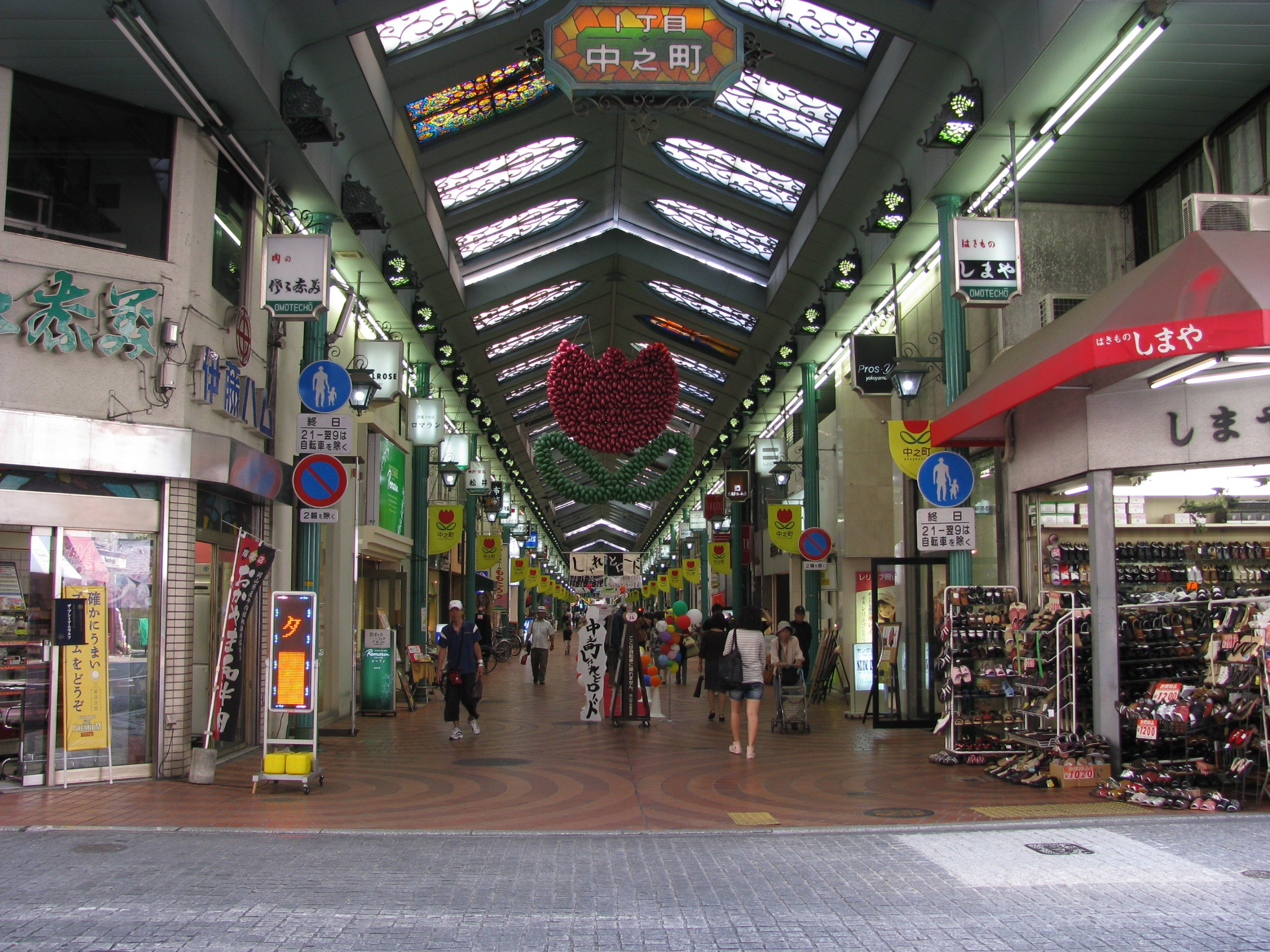 The Okayama Omotechō Shotengai is Shopping street. This place is Kita-ku, Okayama, Okayama Prefecture, Japan.